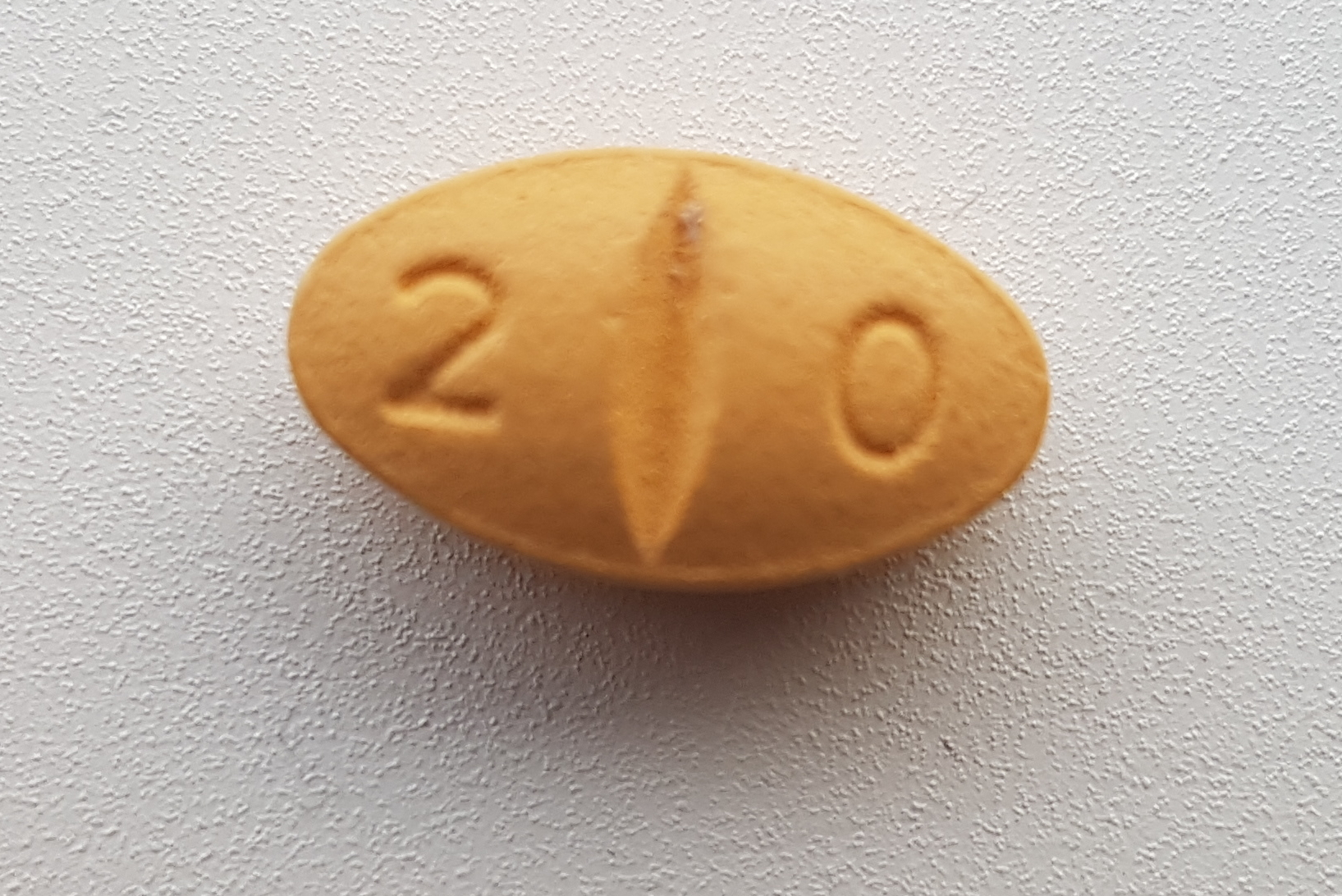 Generic Tadalafil (20 mg) by Sandoz